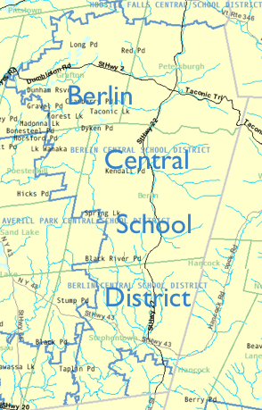 Map of Berlin Central School District. The district's eastern and souther borders are represented by the border with Massachusetts to the east and Columbia County to the south, respectively.